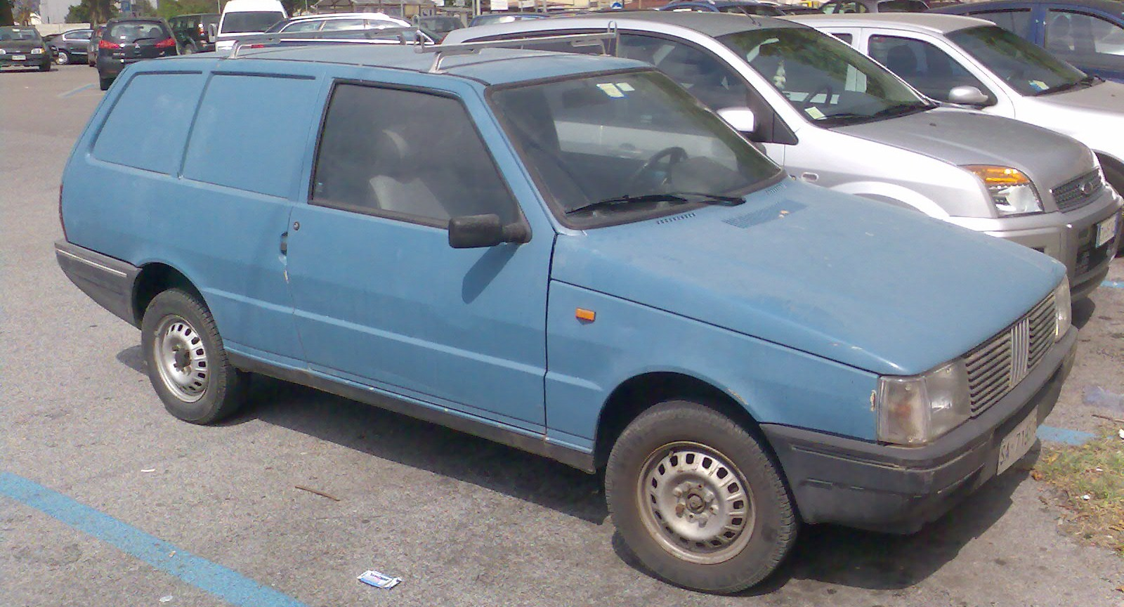 a blue Fiat penni in Salerno